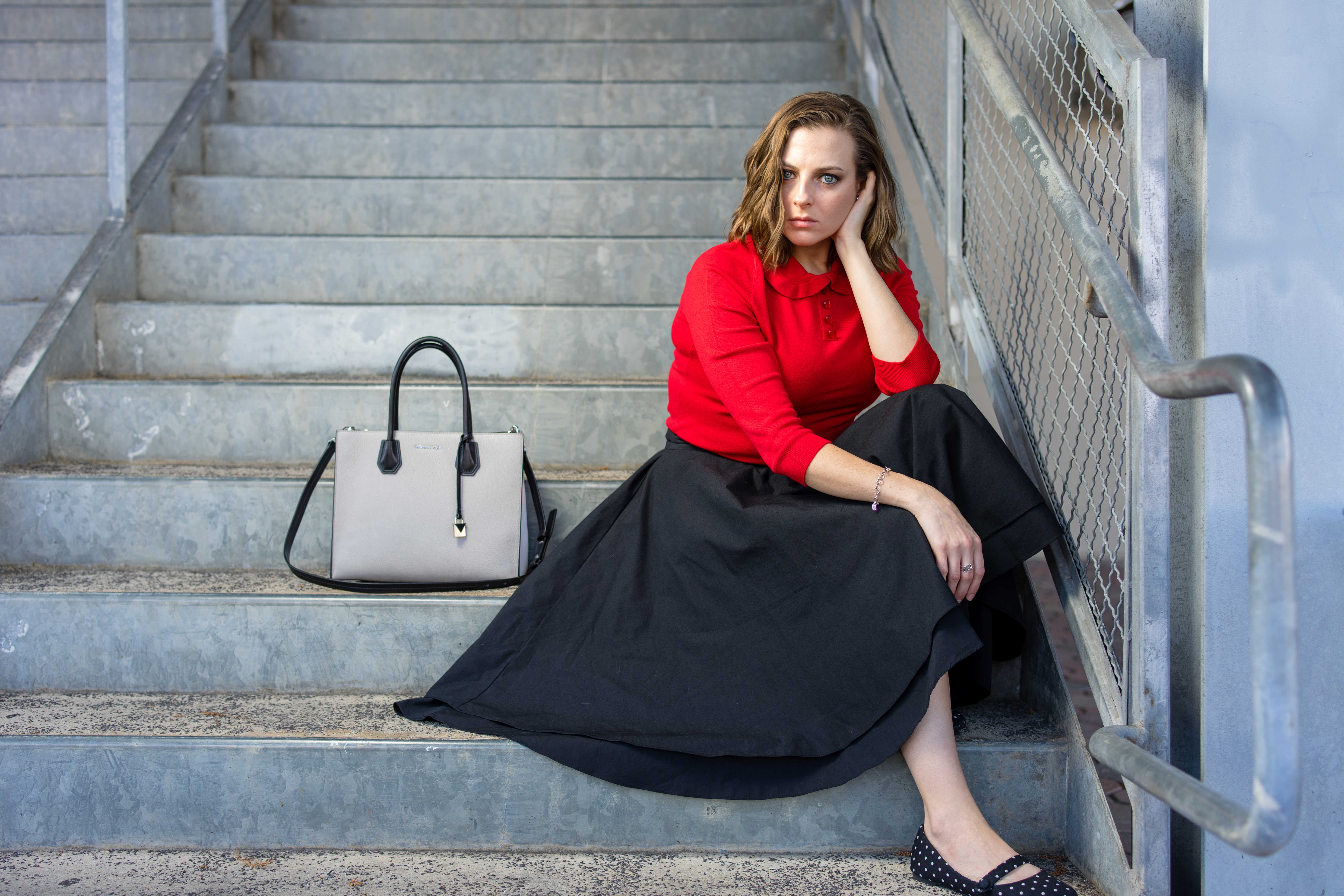 Woman wearing full skirt